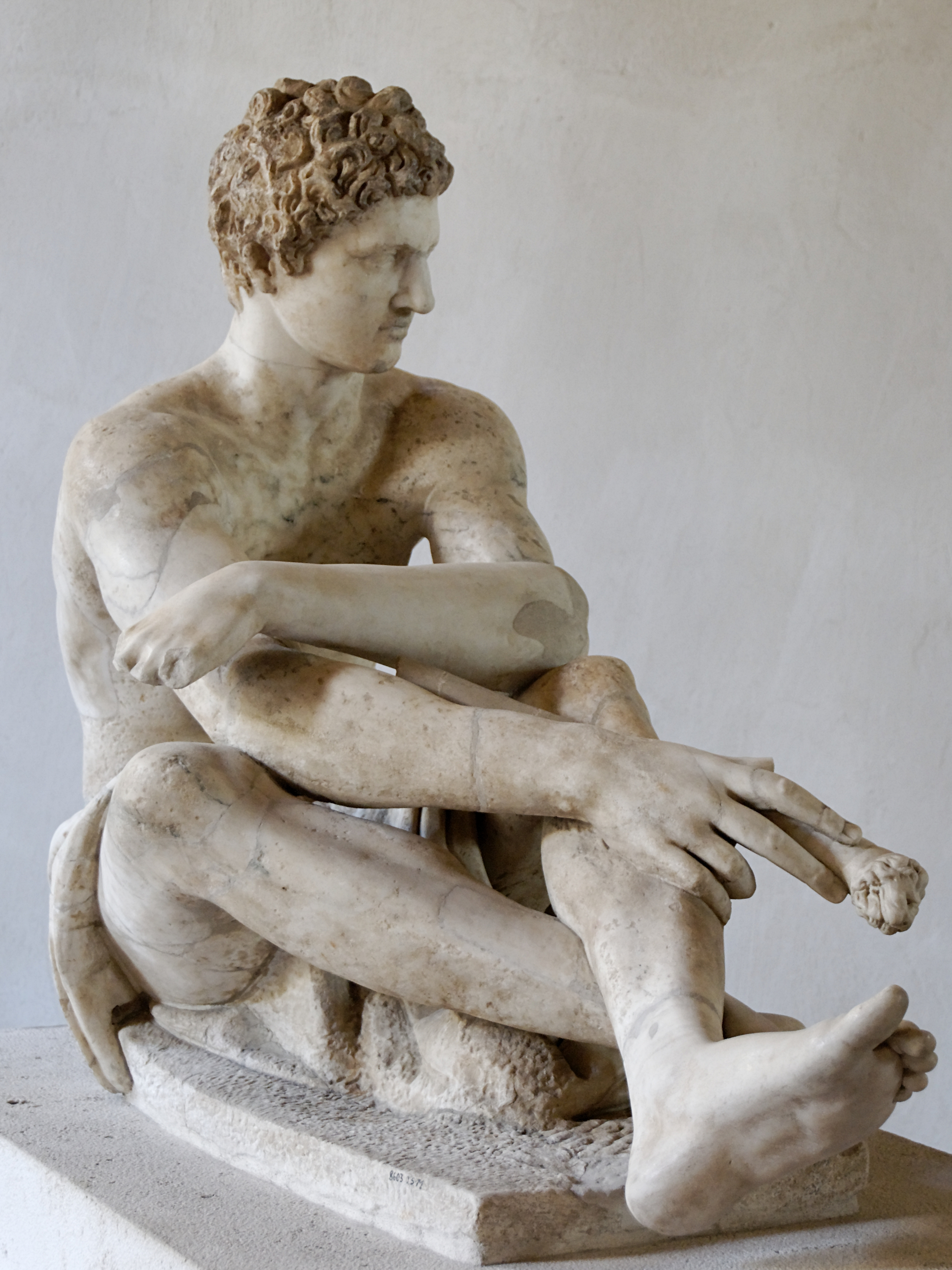 Seated warrior, traditionnally a pendant to the statue of Ludovisi Ares. Pentelic marble (body) and Parian marble (head), Roman copy after an Hellenistic original. Slightly restored; the head is antique (type of the Skopas Meleager) but does not belong to the body.